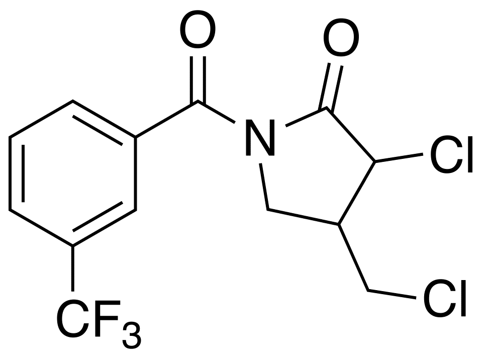 Skeletal structure of fluorochloridone, an herbicide that inhibits phytoene desaturase